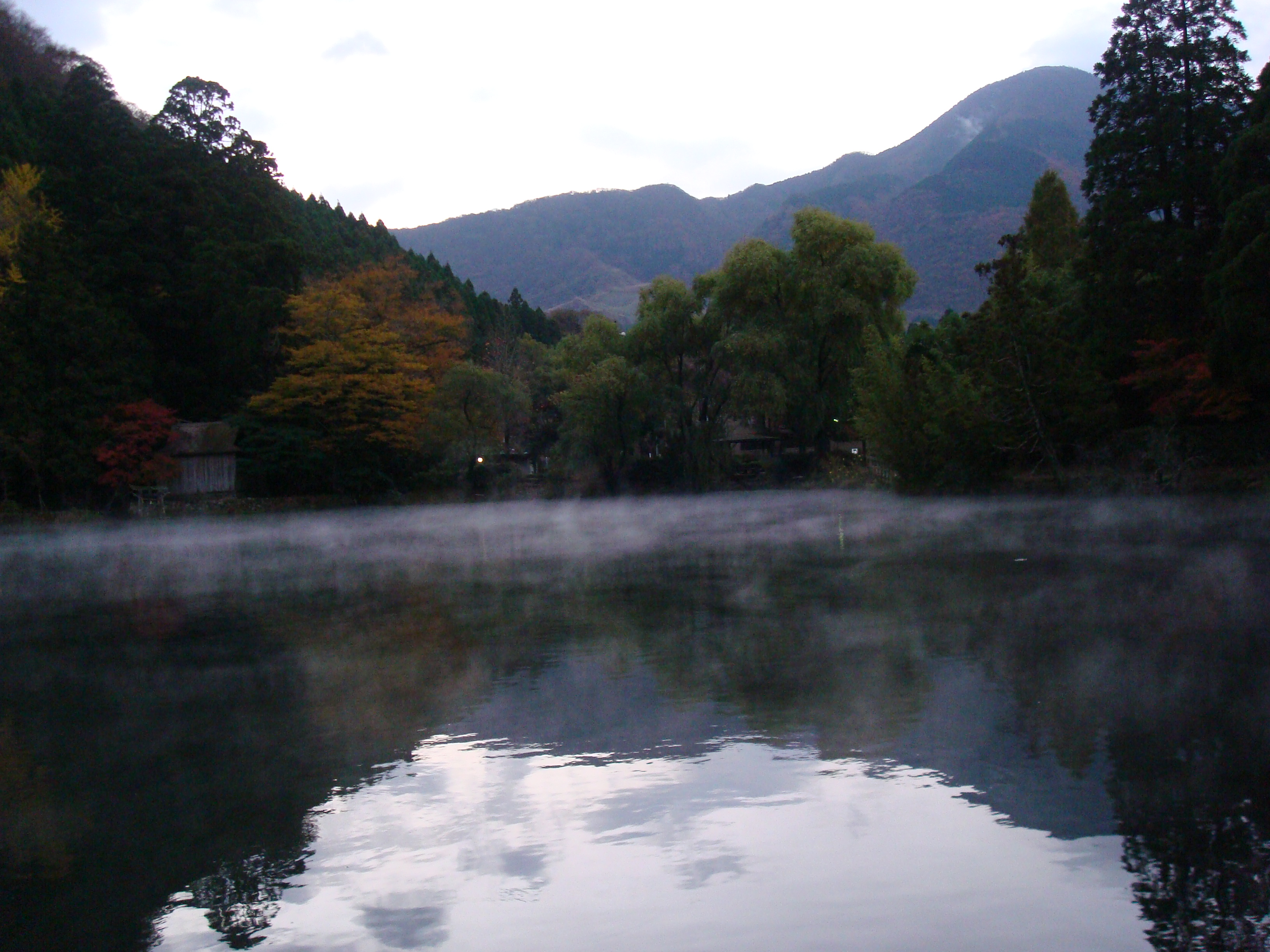 Lake Kinrin with Morning fog